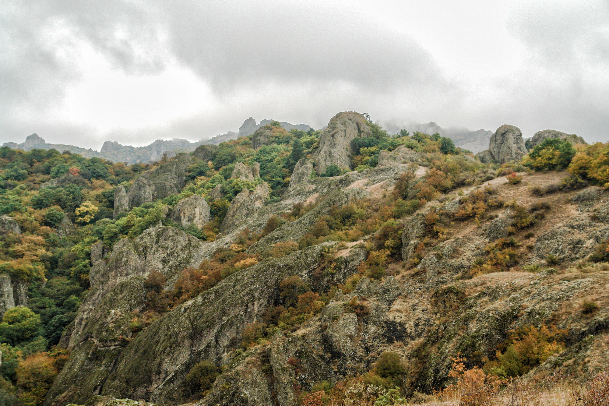 Birtvisi Natural Monument is a ruined medieval fortress in Kvemo Kartli, Georgia, nested within limestone cliffs in the Algeti river gorge. It is now within the boundaries of the Tetri-Tsqaro municipality, adjacent to the Algeti National Park, south-west of the nation's capital Tbilisi. Birtvisi is essentially a natural rocky fortress of 1 km², secured by walls and towers, the most prominent of which – known as Sheupovari ("Obstinate") – tops the tallest rock in the area. Various accessory structures, an aqueduct included, have also survived.[2] In written sources, Birtvisi is first mentioned as a possession of the Arab amir of Tiflis of which he was divested by the Georgian nobles Liparit, Duke of Kldekari and Ivane Abazasdze in 1038.[3] In medieval Georgia, Birtvisi entertained a reputation of an impregnable stronghold whose master could control the entire strategic Algeti gorge. The Turco-Mongol amir Timur notably reduced the fortress during one of his invasions of Georgia in 1403.[4] After the partition of the Kingdom of Georgia later in the 15th century, Birtvisi was within the borders of the Kingdom of Kartli and in possession of the princes Baratashvili.[2]